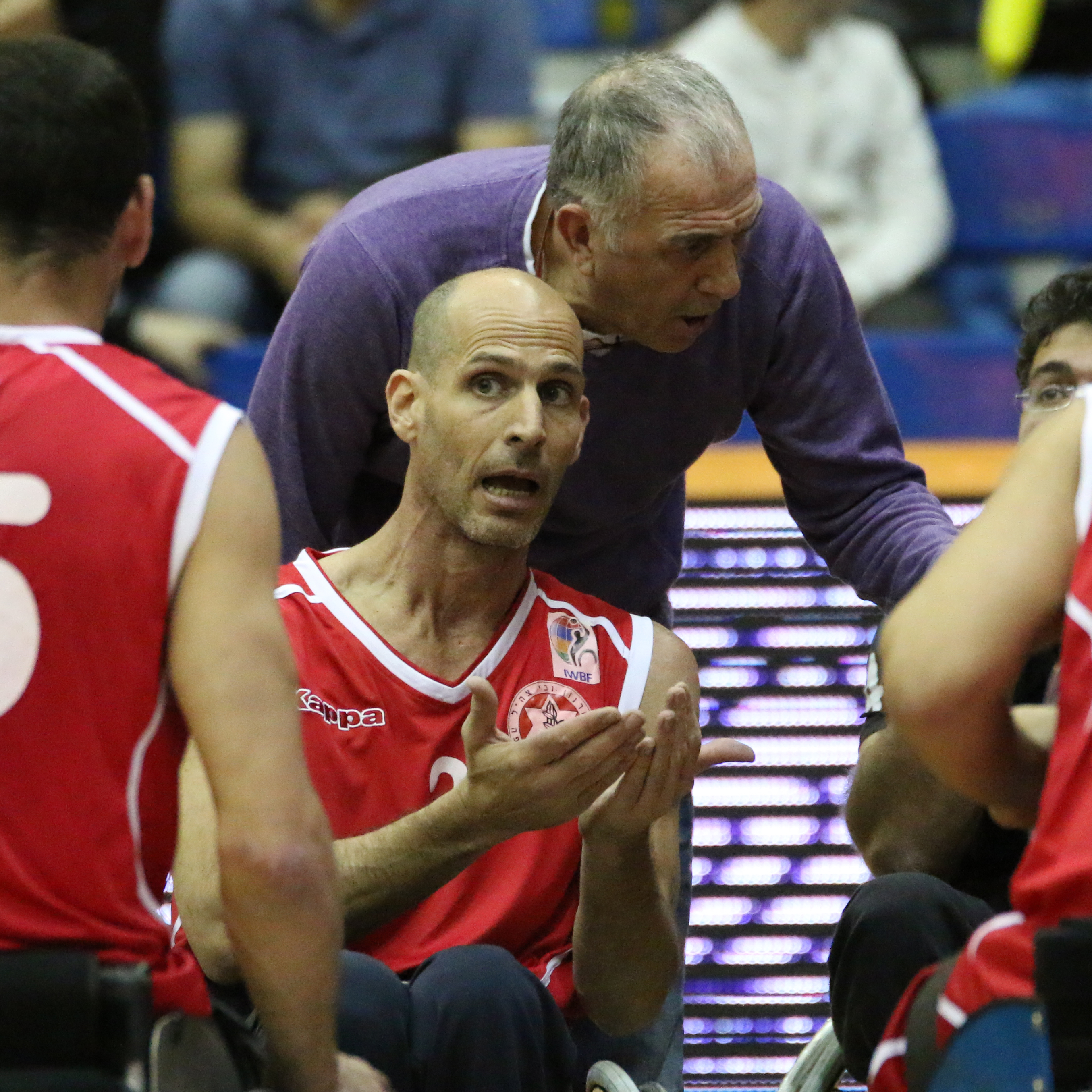 Liran Hendel, 2017